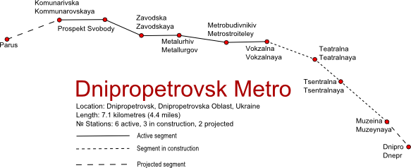 Map containing Ukrainian and Russian transliterations of the Dnipropetrovsk Metro in Dnipropetrovsk, Ukraine.